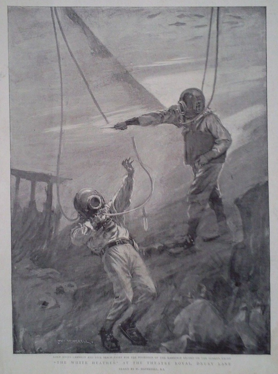 Front cover of The Graphic, September 25, 1897, with illustration by William Hatherell depicting a scene from "The White Heather" which debuted at Drury Lane on September 16, 1897